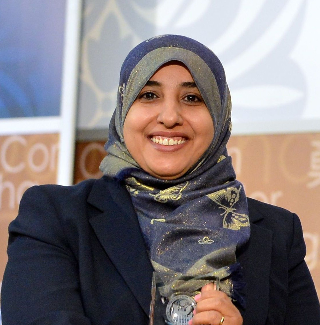 Nihal Naj Ali Al-Awlaqi with John Kerry at the International Women of Courage Awards 2016